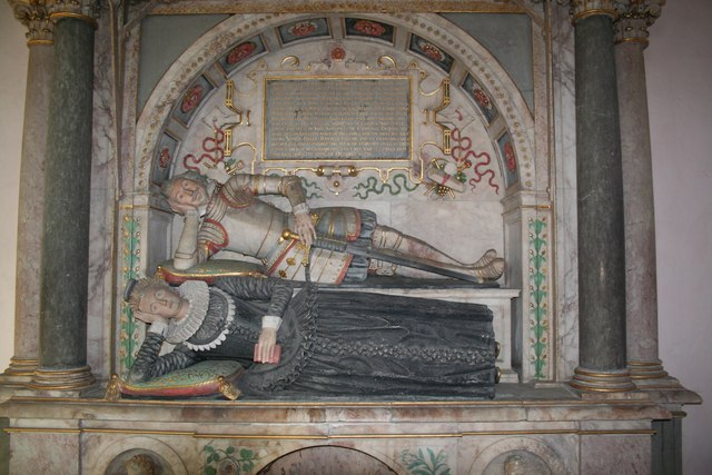 Sir George St.Pol and his wife. One of the fine tombs in St.Lawrence's church, Sir George St.Pol, knight and baronet died in 1613.